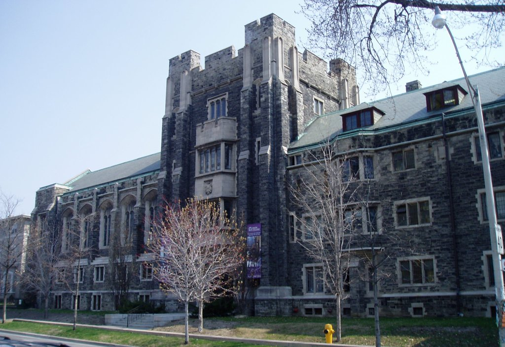 Taken by SimonP in April 2005 Category:University of Toronto buildings